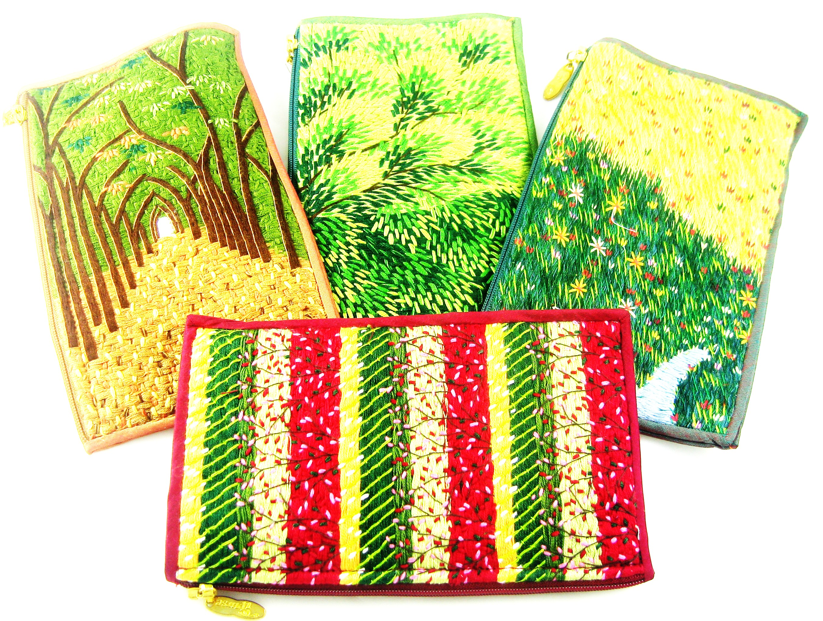 Pouch